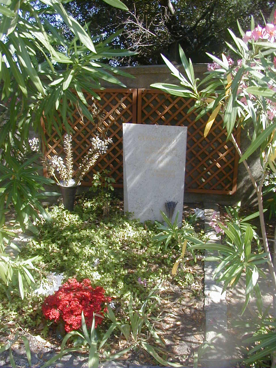 Ramatuelle. The tomb of Gérard and Anne Philipe.